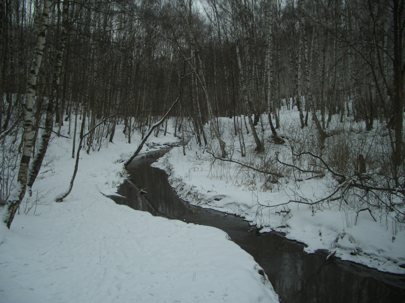 Bitsa River in Yasenevo Forest Park